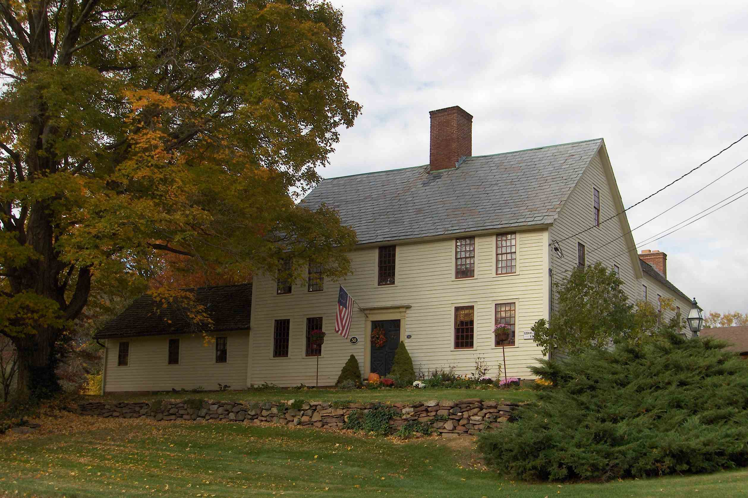 Ezekiel Phelps House, built in 1744 by Joseph Phelps, for his son Ezekiel. At the time of the building, the location was Simsbury CT USA, the area is now known as East Granby CT USA